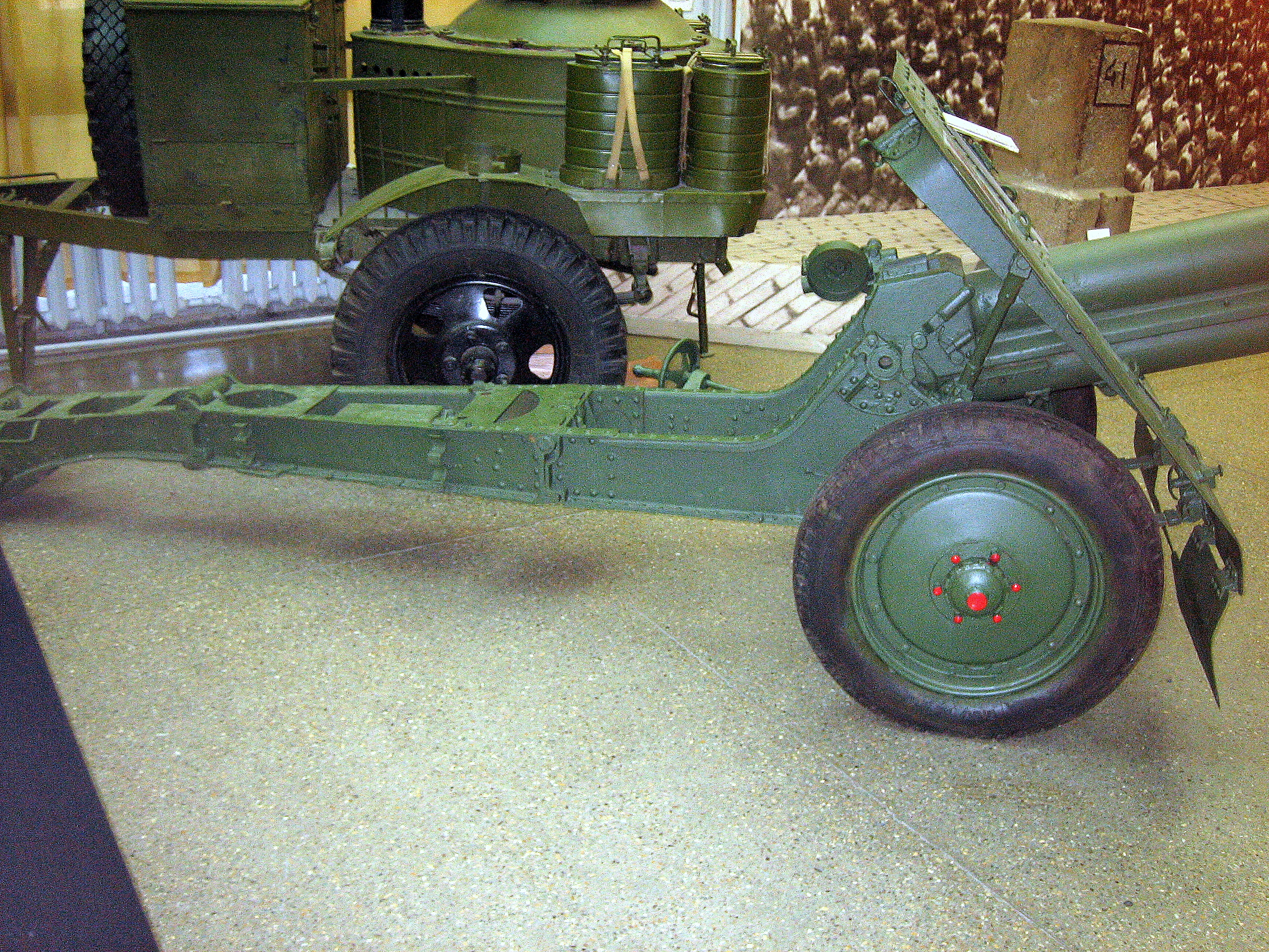 Soviet 76mm mountain gun M1938, displayed in Moscow Military Museum. Photo taken on 19 July, 2007. Source: Photo by me, User:Сайга20K.